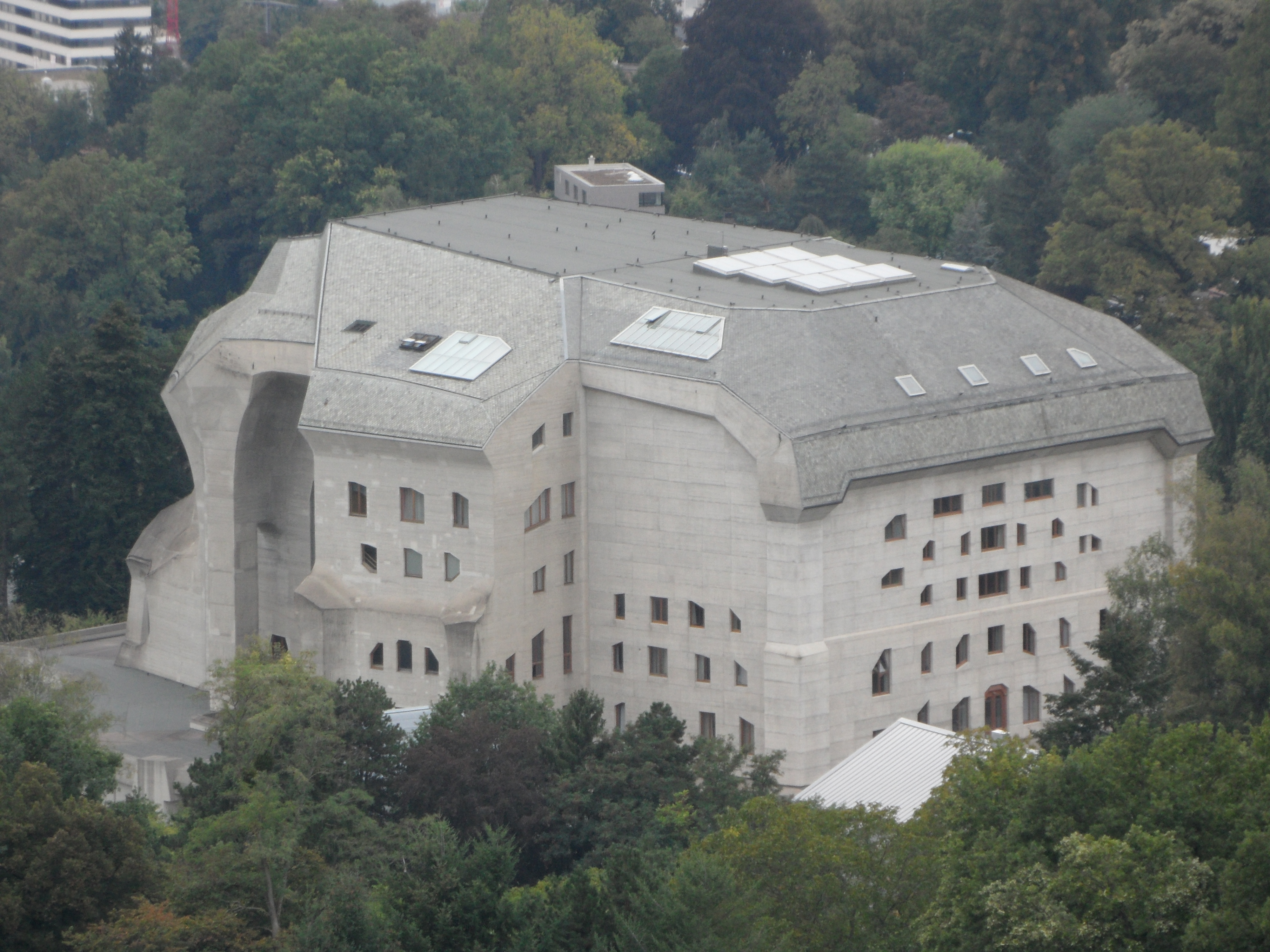 Goetheanum from the Ruin Dorneck